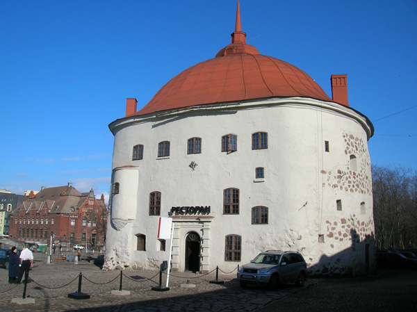 Round Tower in Vyborg (built in 1550)